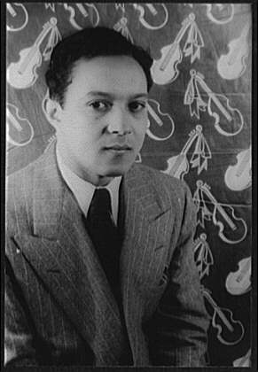 Title: Portrait of Everett Lee Abstract/medium: 1 photographic print : gelatin silver.